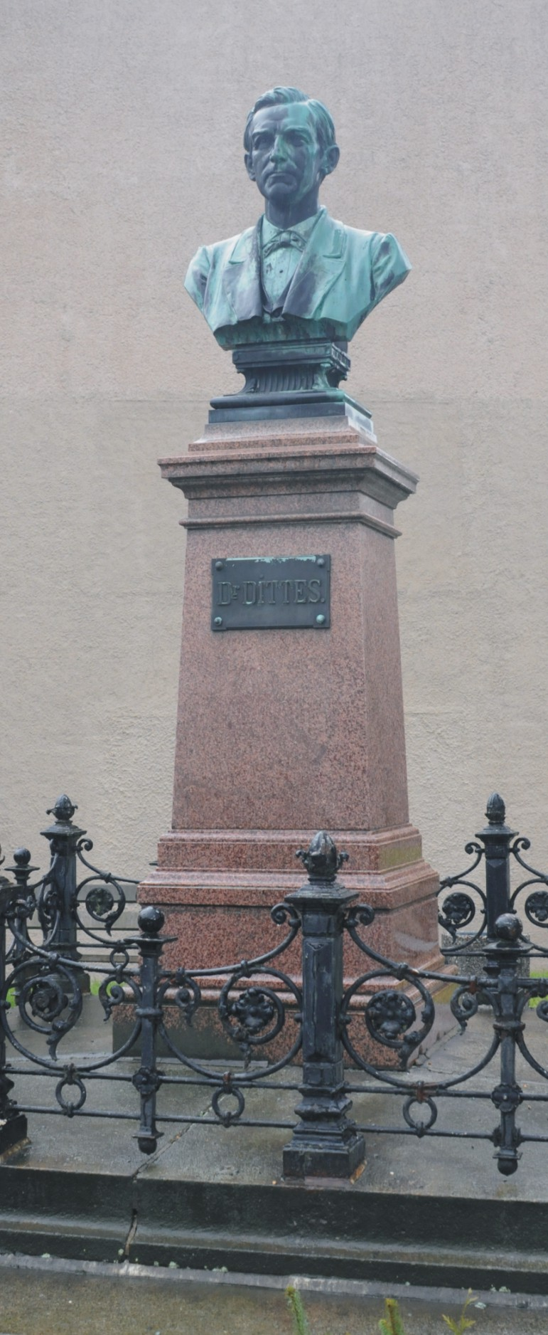 Dittes memorial in Irfergruen (Saxony, Germany)